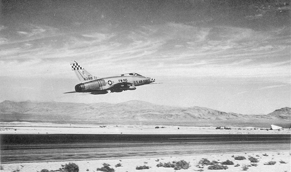 A United States Air Force North American F-100D-60-NA Super Sabre fighter (s/n 56-2910) taking off from Nellis Air Force Base, Nevada (USA), circa 1959.